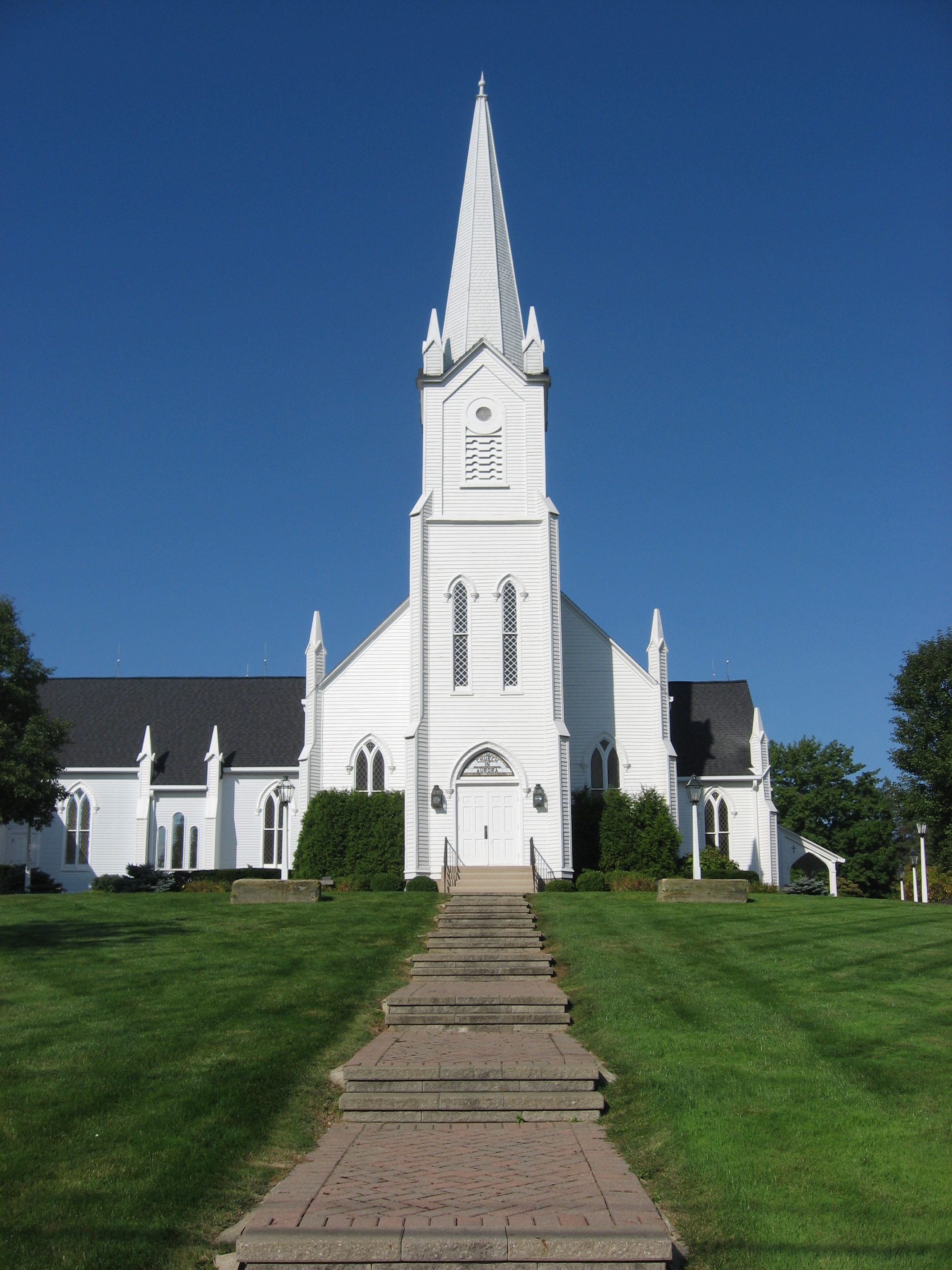 Front of The Church in Aurora, located at 146 S. Chillicothe Road (State Route 43) at the center of the city of Aurora, Ohio, United States. Built in 1870, the church is part of the Aurora Center Historic District, which is listed on the National Register of Historic Places. Church website.